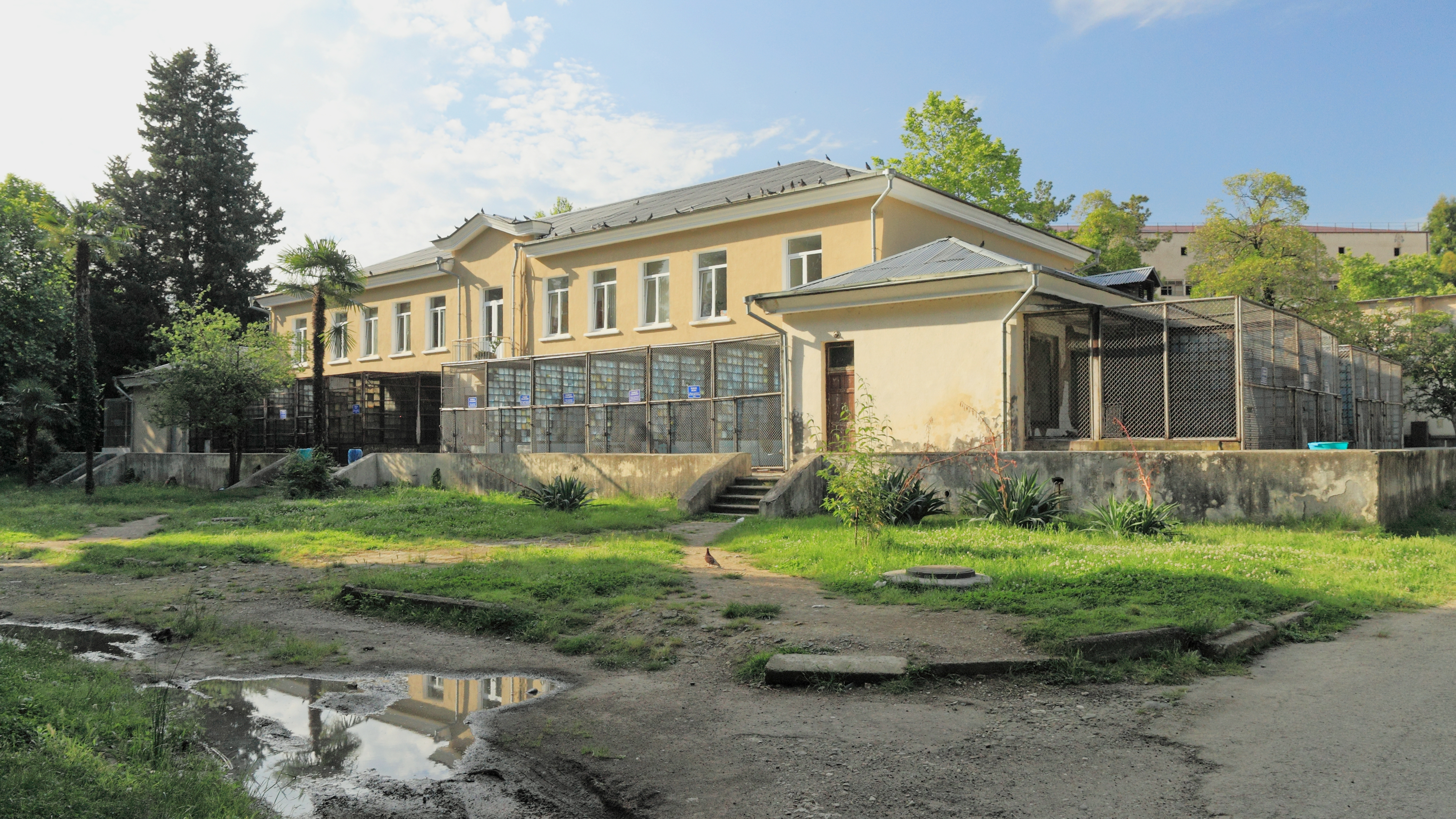 Apery. Research Institute of Experimental Pathology and Therapy, Academy of Sciences of Abkhazia. Sukhumi, Abkhazia.